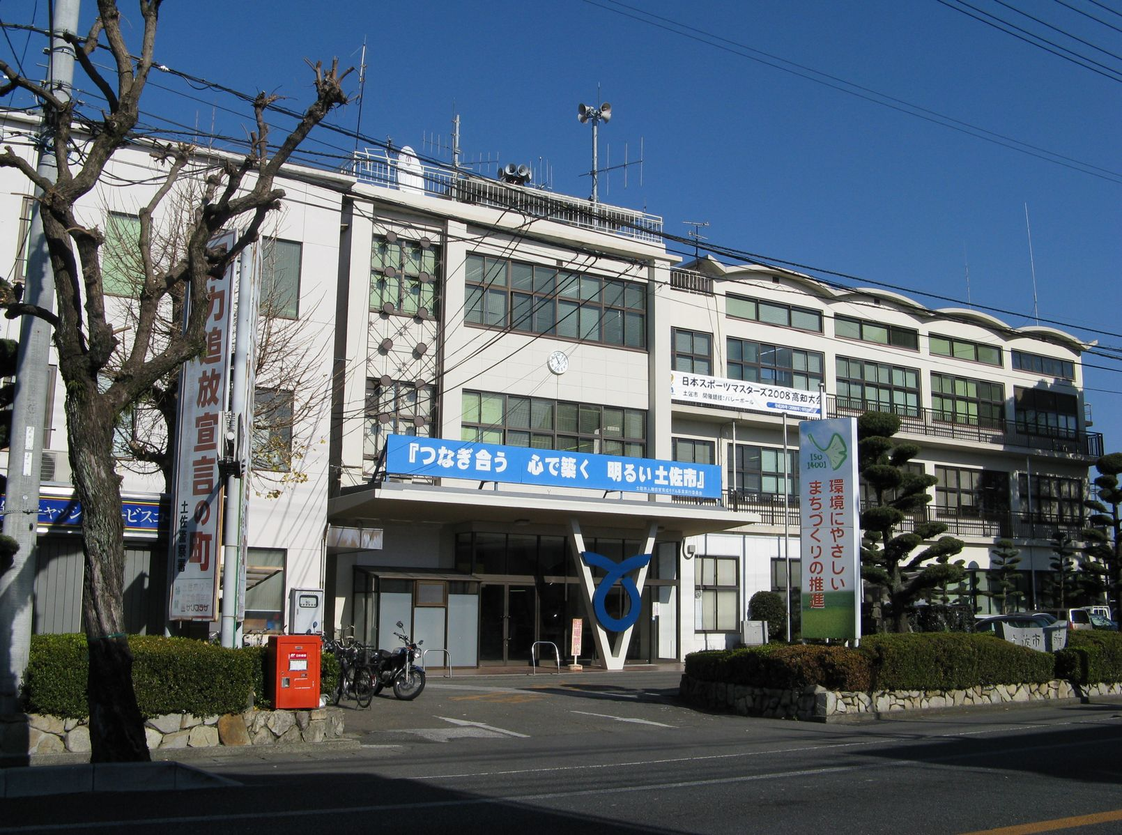 City office of Tosa city, Kōchi, Japan.